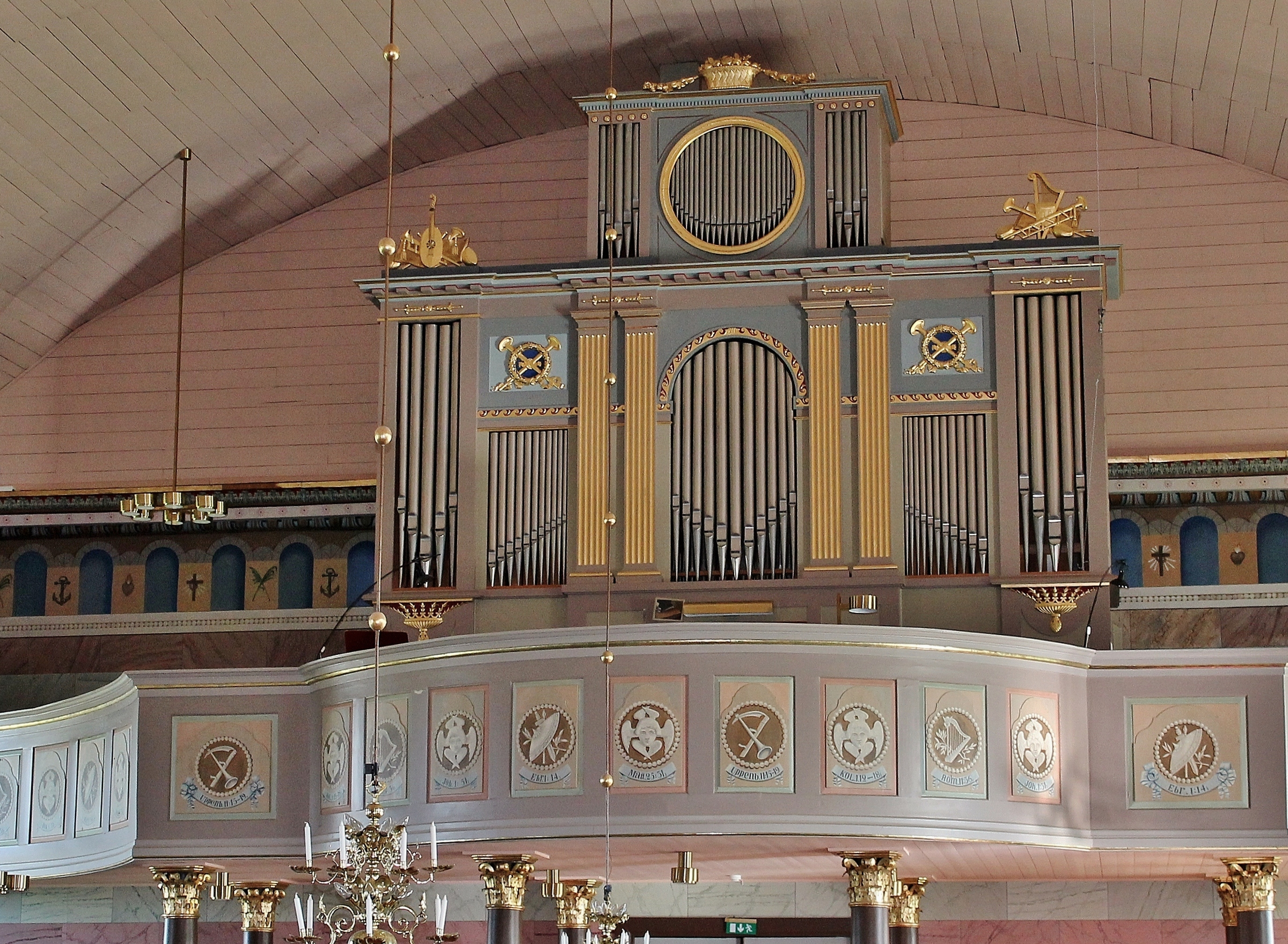 Urshult Church.Organ